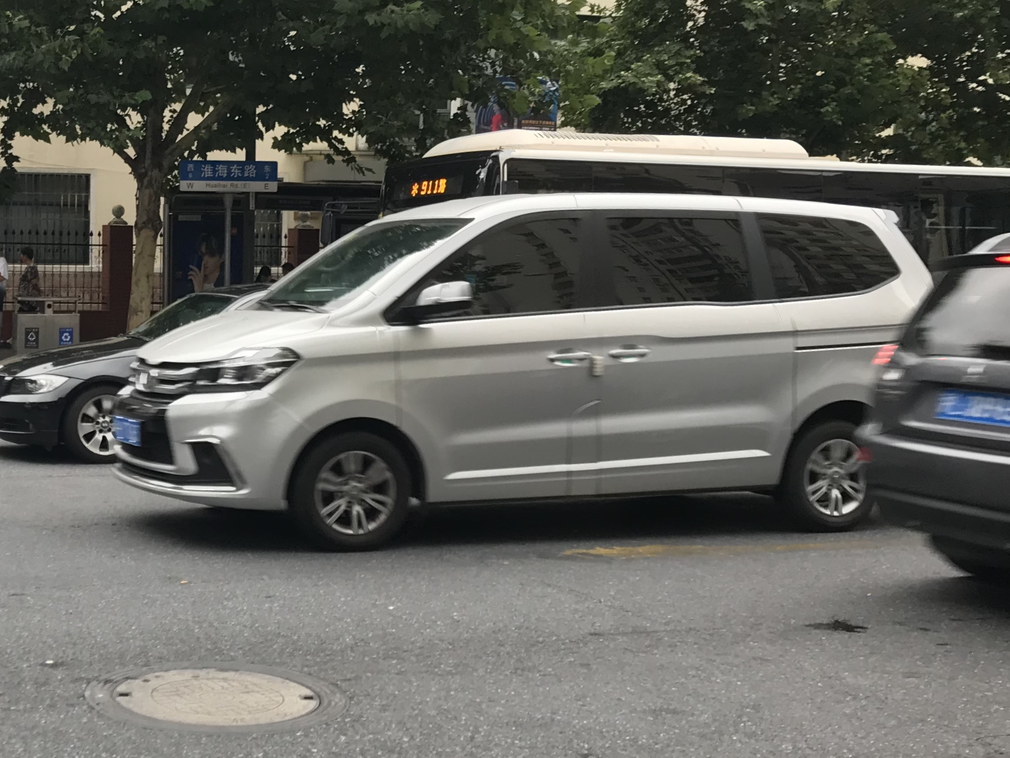 Huasong 7 facelift